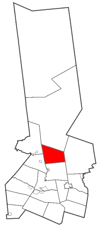 Map of Herkimer County highlighting Norway